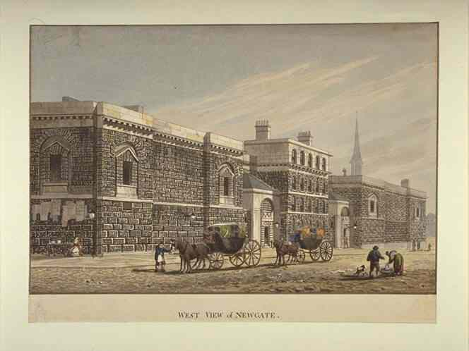 The second Newgate in a 19th century print: From Newgate Prison